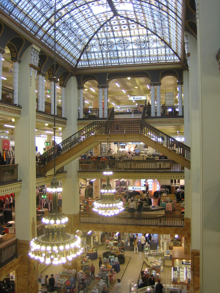 Karstadt department store, art nouveau (1913)